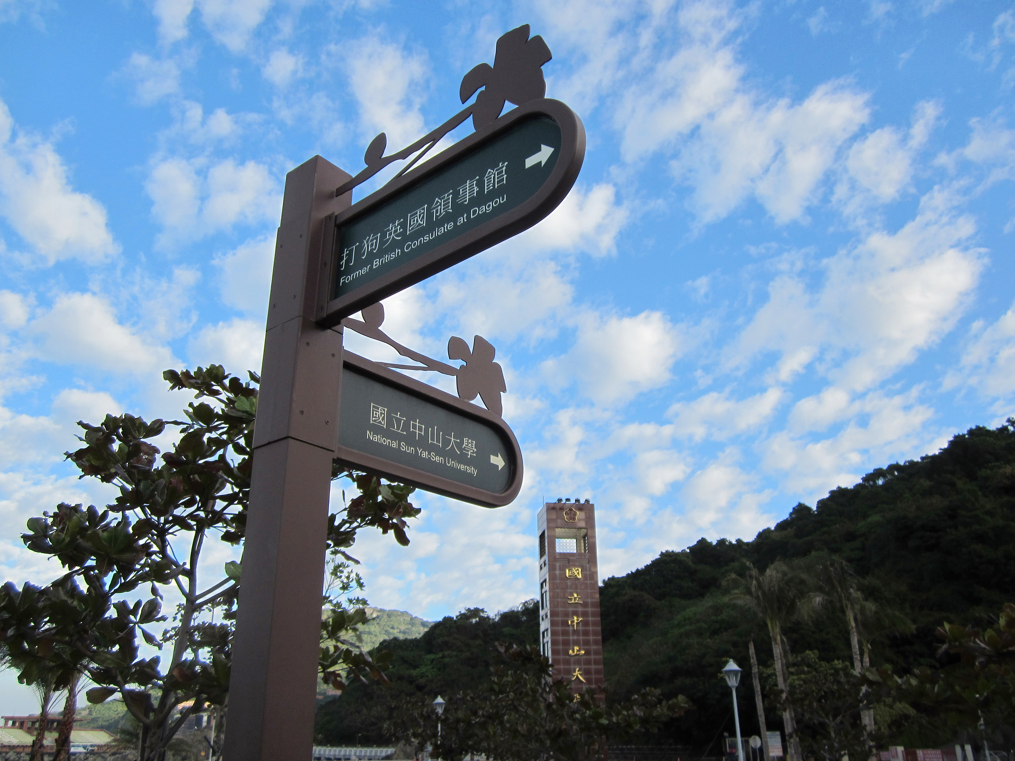 National Sun Yat-sen University